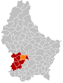 Own edit of Kanton CapellenLocatie.png